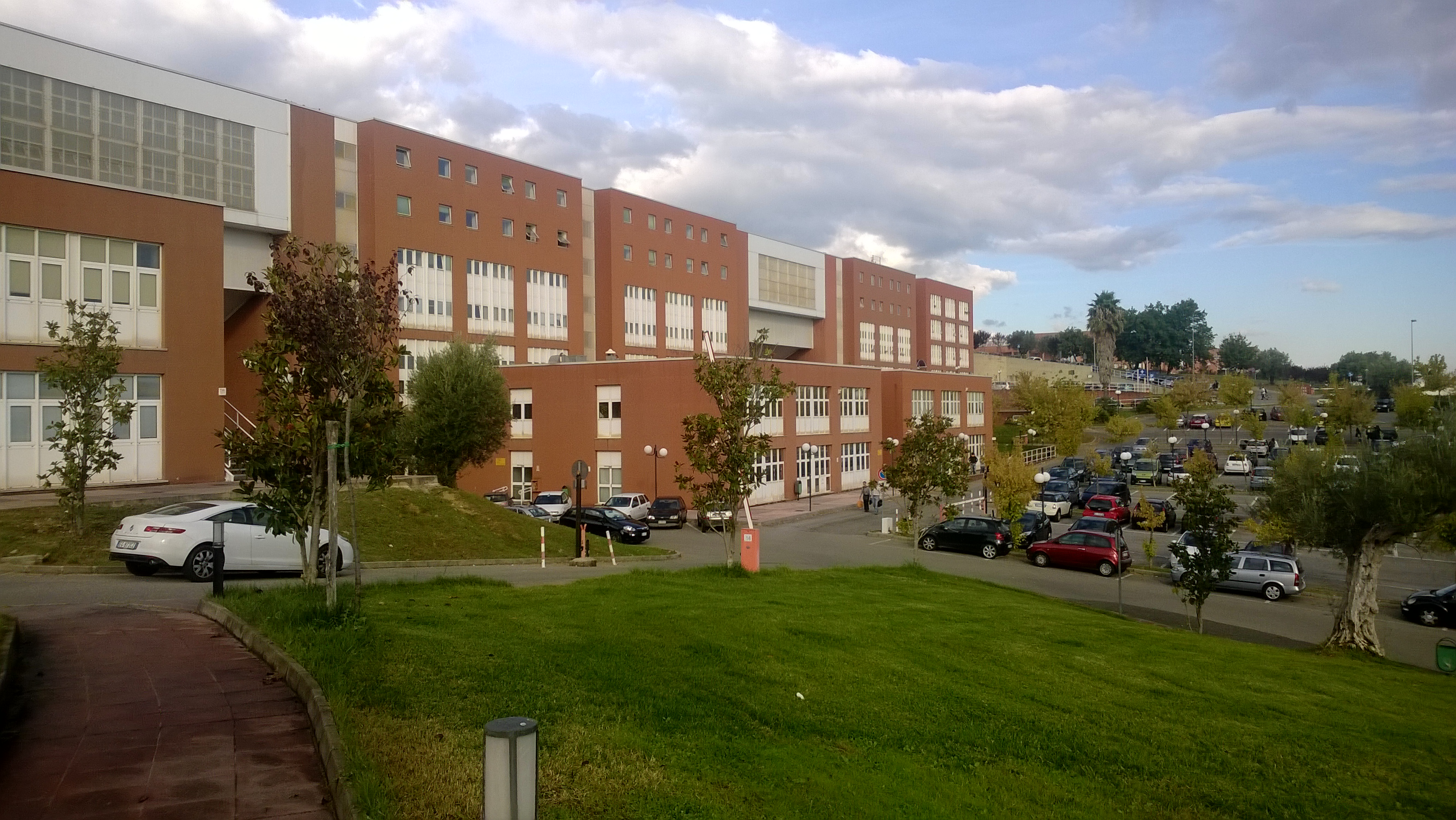 Scorcio di alcuni cubi dell'università